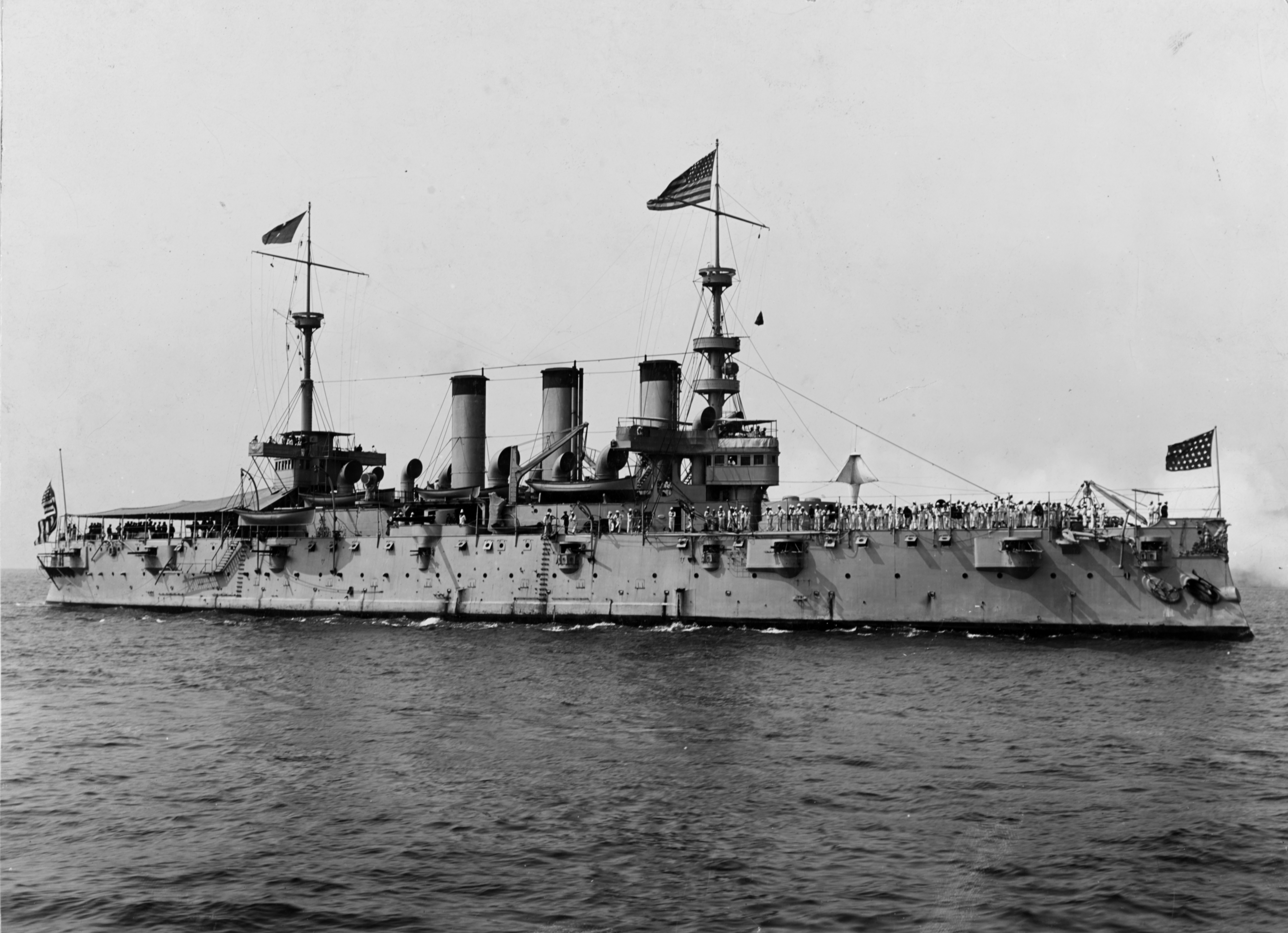 USS New York (CA-2). Off New York City during the victory fleet review, August 1898. U.S. Naval History and Heritage Command Photograph.